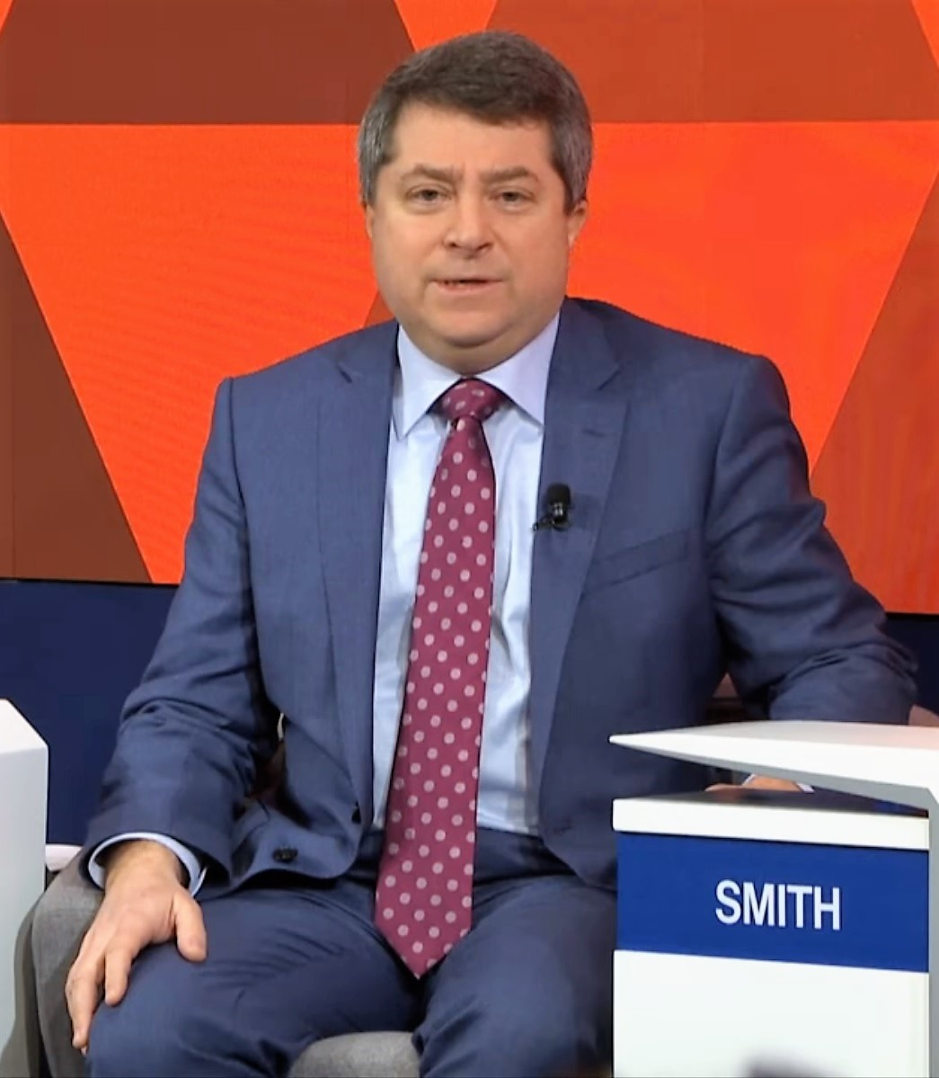 Future Shocks: Cyberwar without Rules In the wake of states investing in offensive and defensive cyber capabilities, the risk of miscalculation is surging. What if a cyberattack escalates unpredictably into a major confrontation because there are no rules for cyberwarfare? Explore the possible, plausible and probable impacts of the Fourth Industrial Revolution. This session was developed in partnership with TIME. · Ashton B. Carter, Director, Belfer Center for Science and International Affairs, Harvard Kennedy School of Government, USA · Bradford L. Smith, President and Chief Legal Officer, Microsoft, USA · Jean Yang, Assistant Professor, Carnegie Mellon University, USA Moderated by · Edward Felsenthal, Editor-in-Chief, Time Magazine, USA